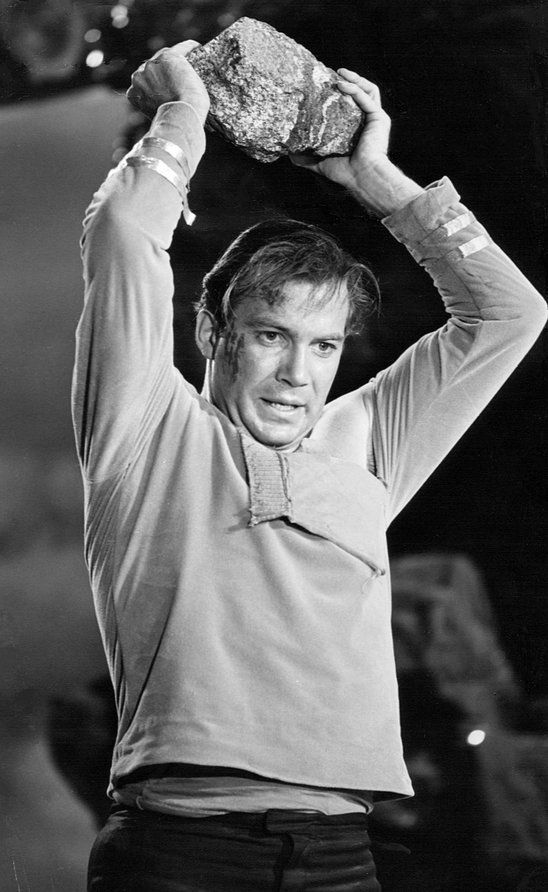 Action photo of William Shatner as Captain Kirk from the first episode of Star Trek.